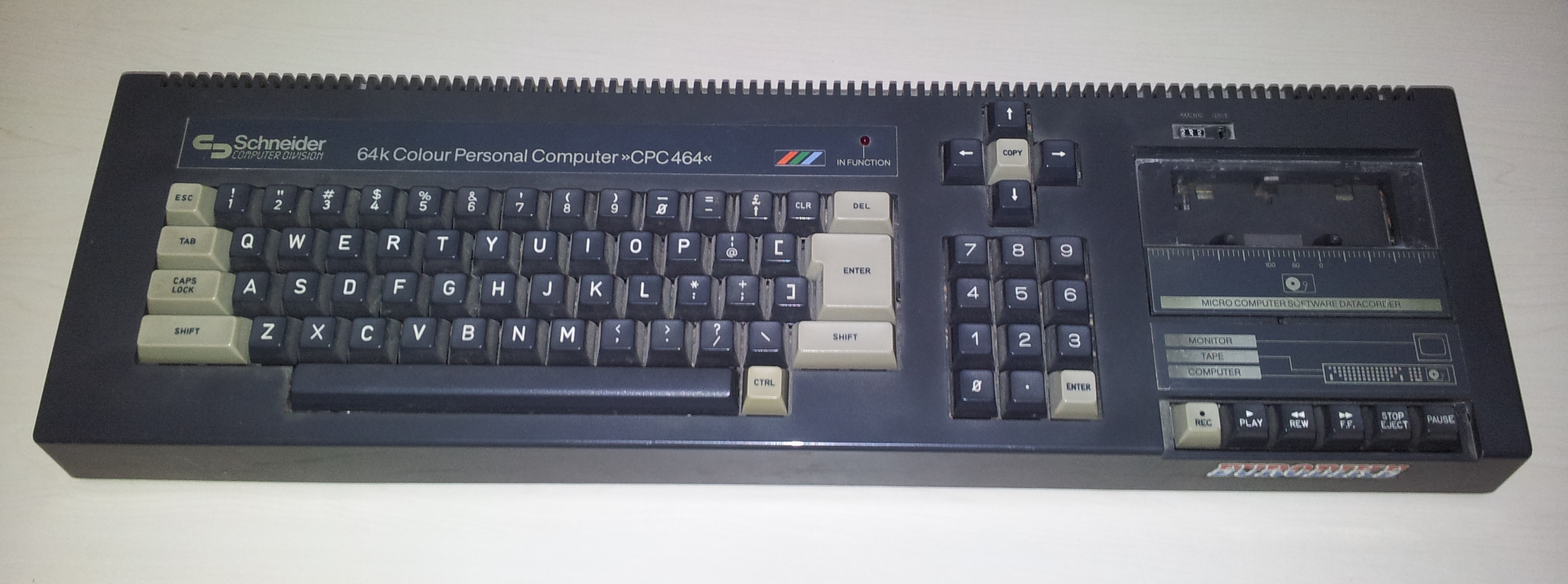 Schneider CPC464 keyboard